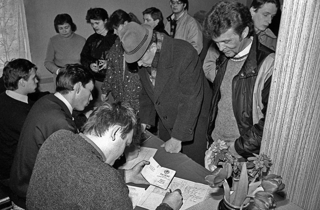 “A polling station in Lithuania on the 1991 Referendum day.”. 17 March 1991 a referendum was held on preservation of the USSR. Resindets of the Lithuanian town Novy Vilno came to the polling station to vote.